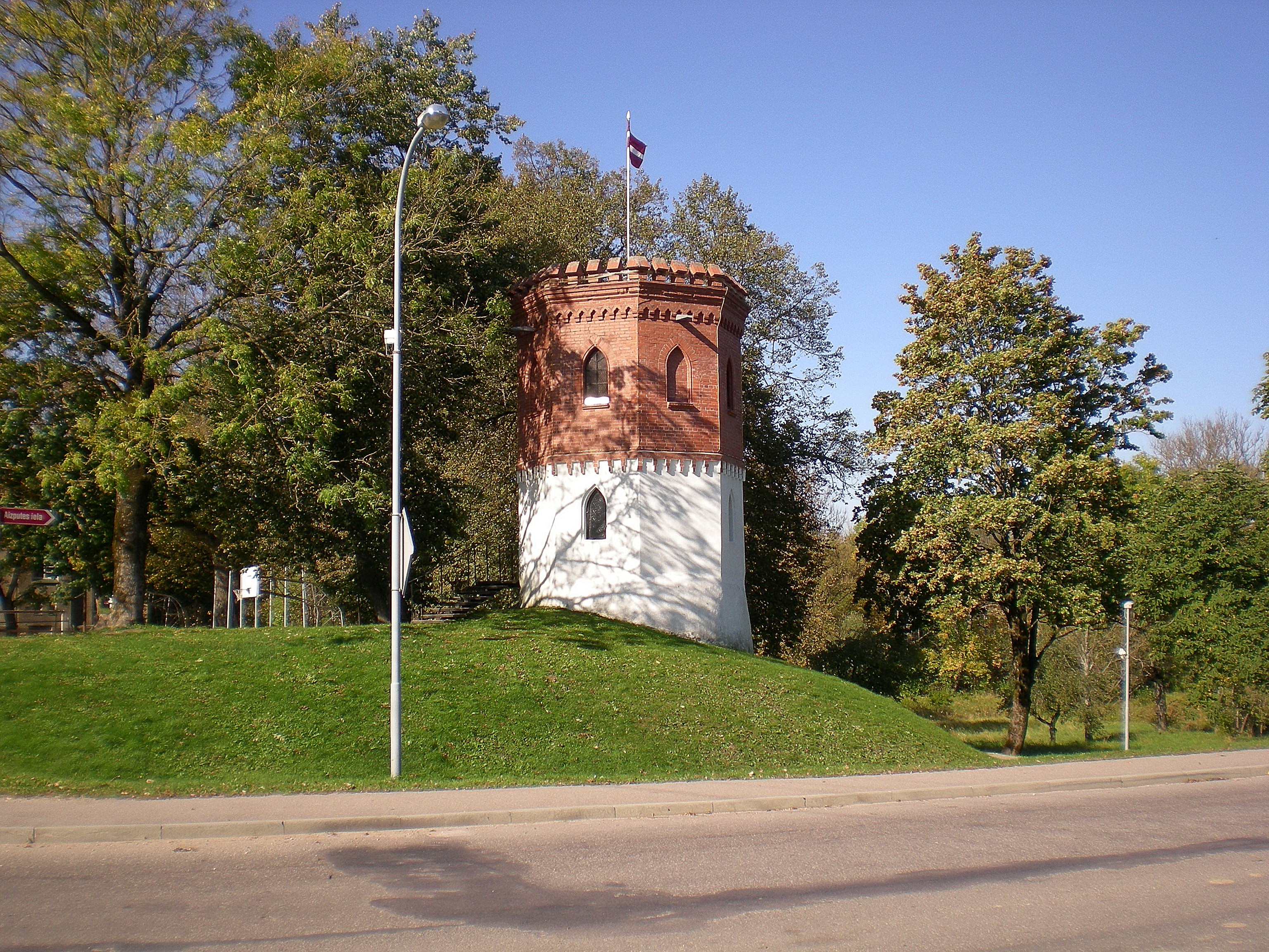 Priekule manor`s tower